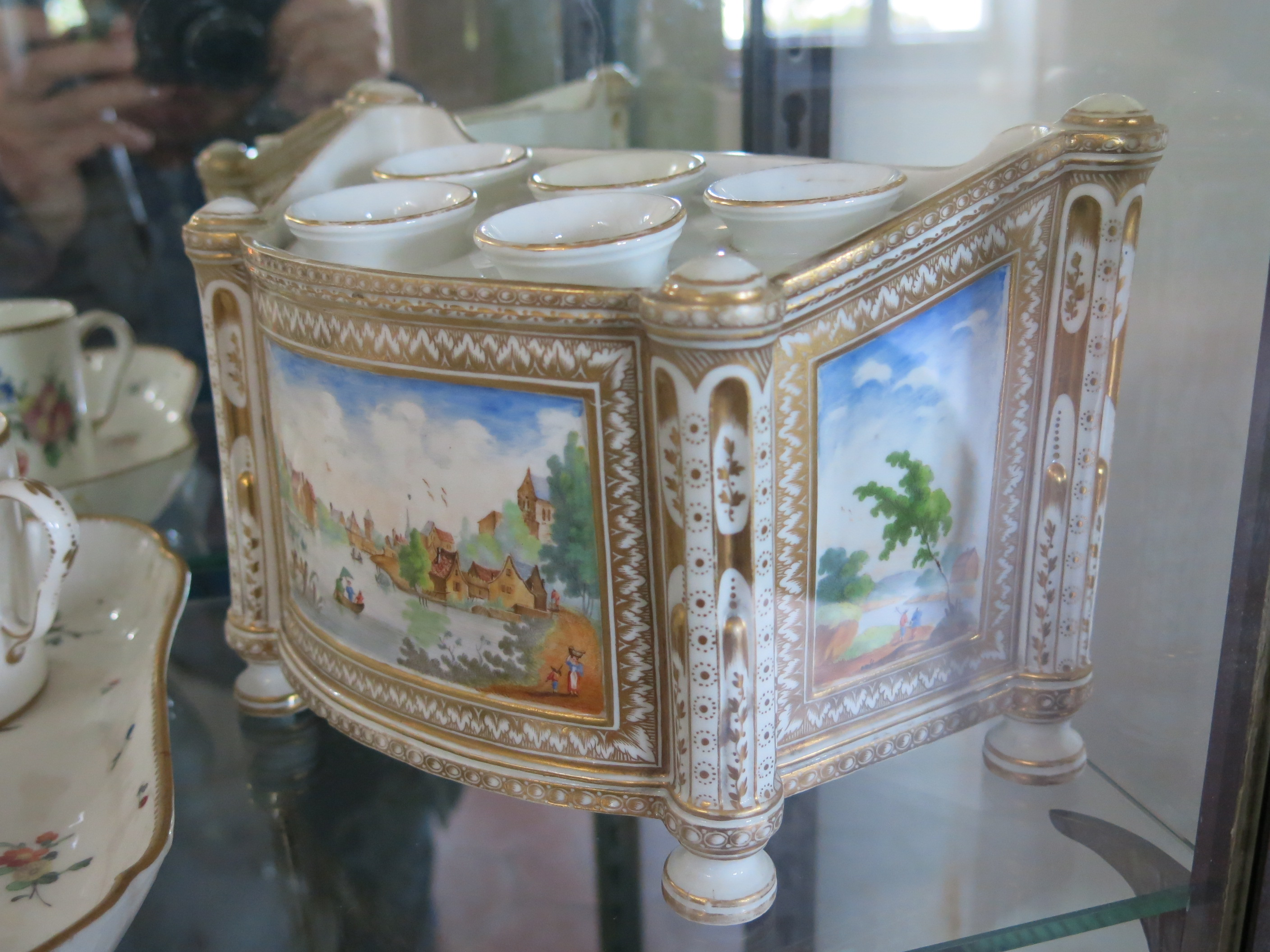 Porcelain made in the factory of Clignancourt (Paris 18th arrond., France). Preserved in Montmartre museum.